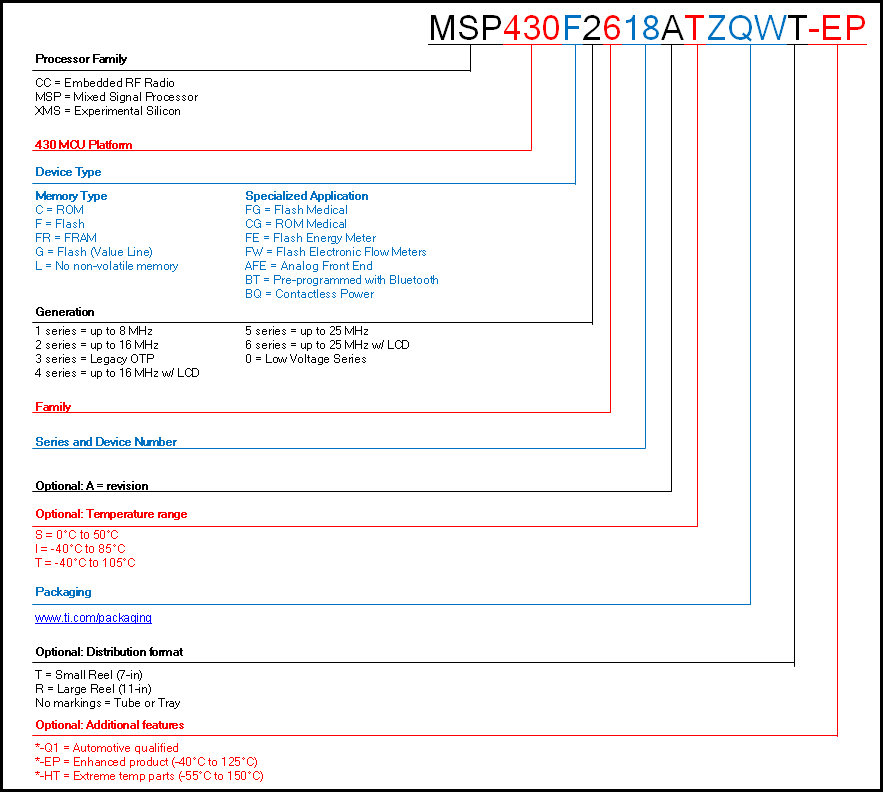 MSP430 Part Number Decoder 2011